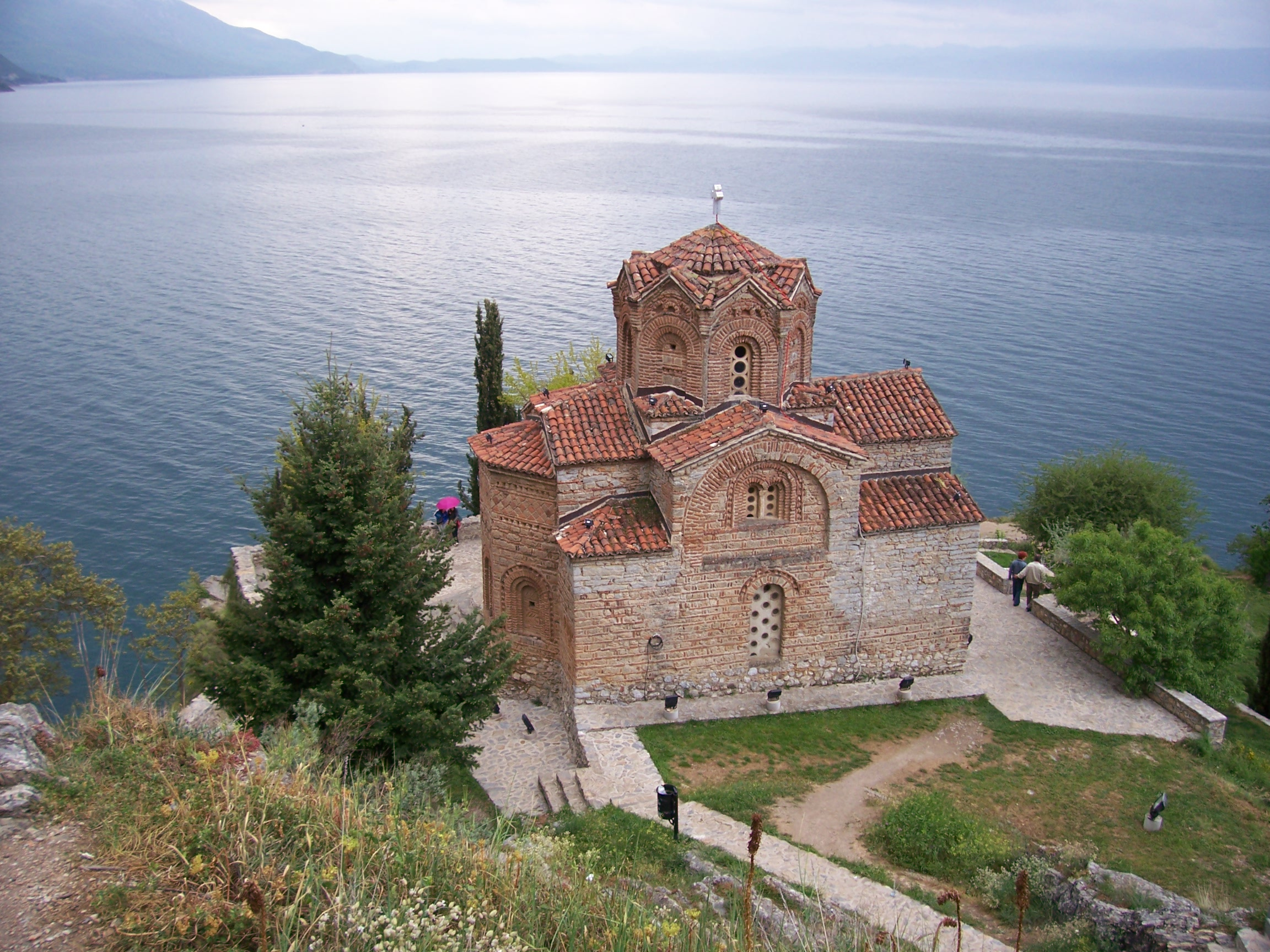 Photo of the church of Saint John at Kaneo (Свети Јован Канео) in Ohrid, Republic of Macedonia